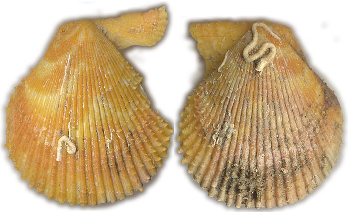 My own scan of a yellow coloured Chlamys varia (Spain, Costa Brava).